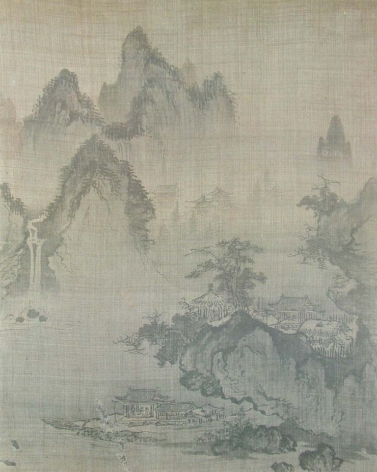 sasipalgyeongdo is a collection of eight paintings that depict the eight seasons of a mountain and water landscape